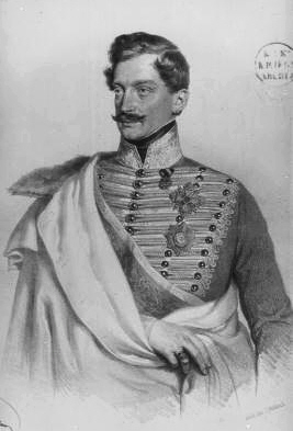 Count Franz Philipp von Lamberg, lieutenant general of the imperial Austrian army